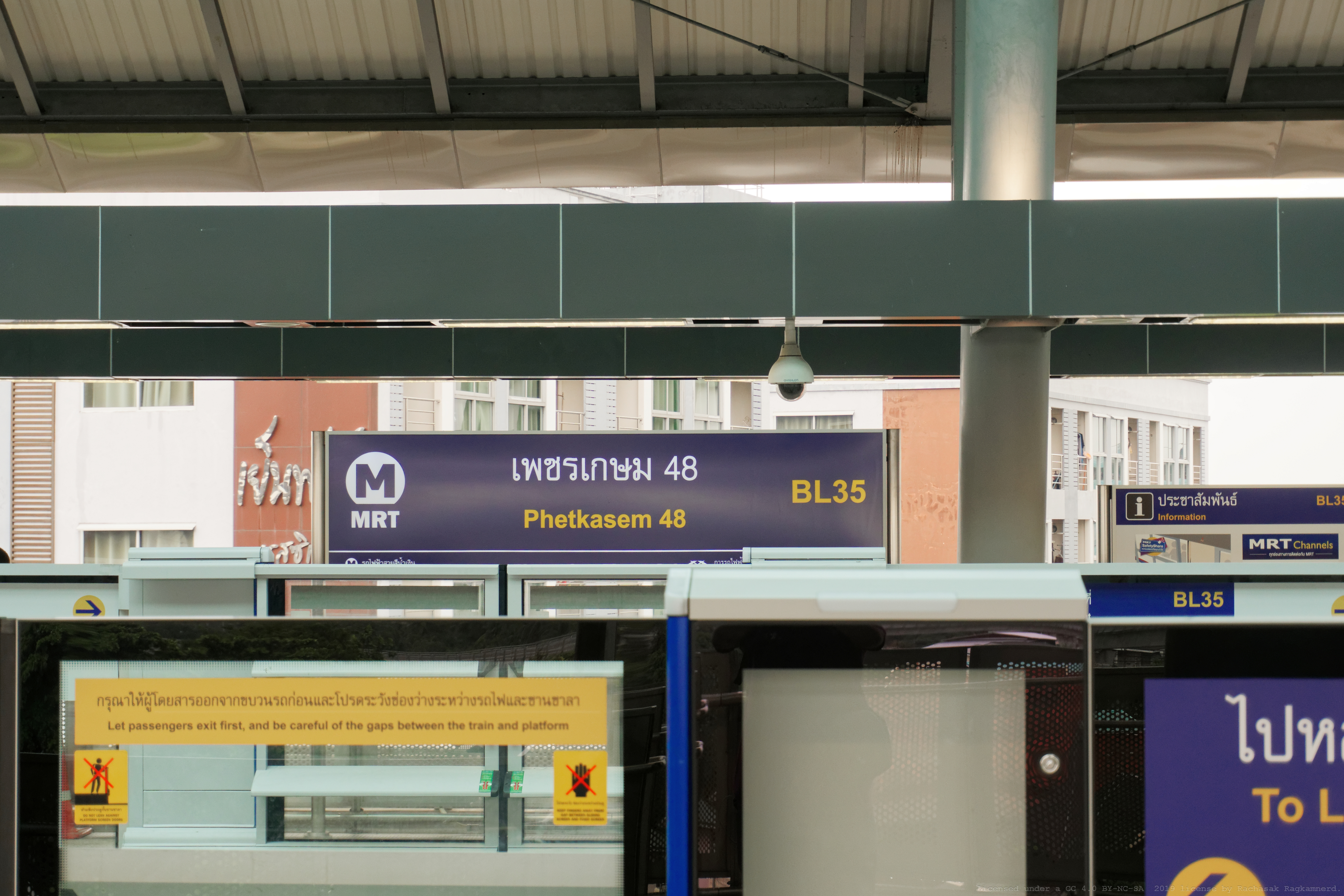 MRT Phetkasem 48 station: traditional station's sign on Tao poon side